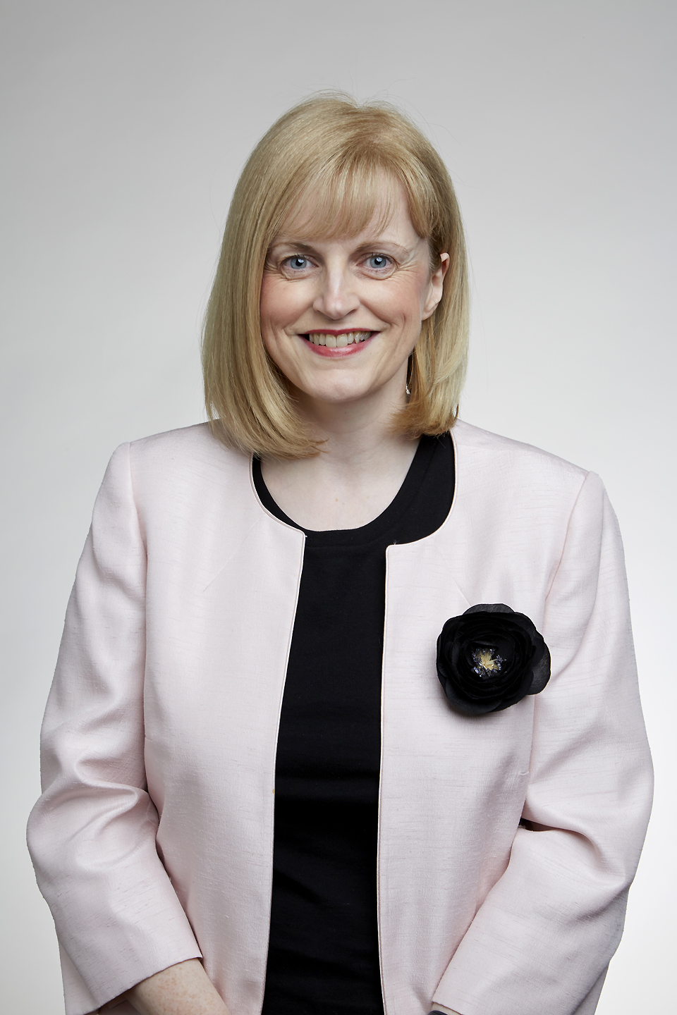 Eleanor Anne Maguire, FMedSci FRS (born 27 March 1970) is an Irish neuroscientist and academic. Since 2007, she has been Professor of Cognitive Neuroscience at University College London. Attribution: The Royal Society